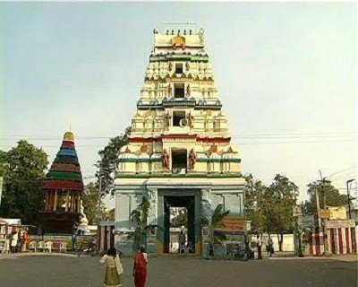 Amaravati gopuram, Amareswara Temple, Amaravati, Guntur district